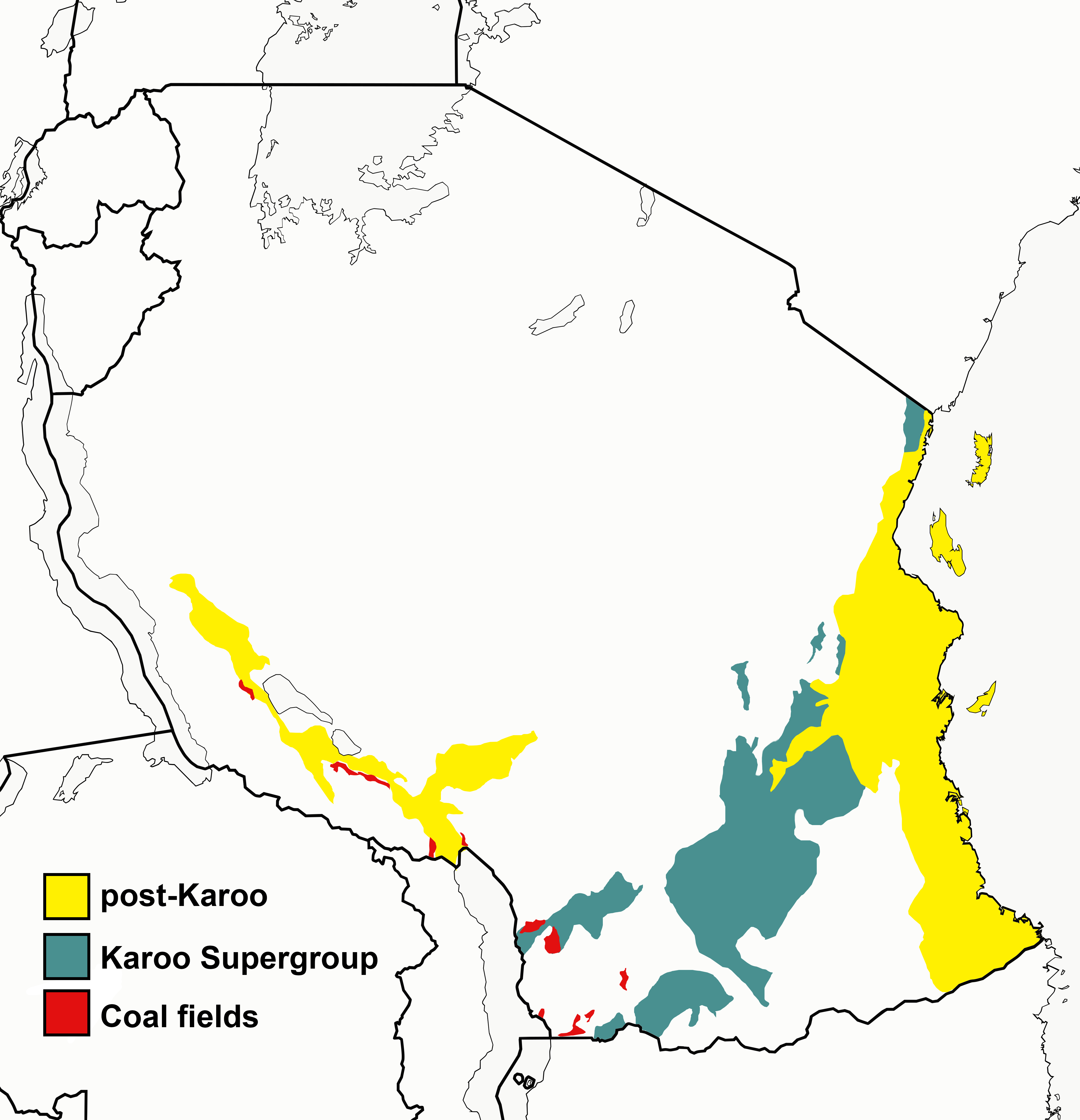 A simplified geological map of the outcrops of the Karoo rocks in Tanzania. Along with coal mines.